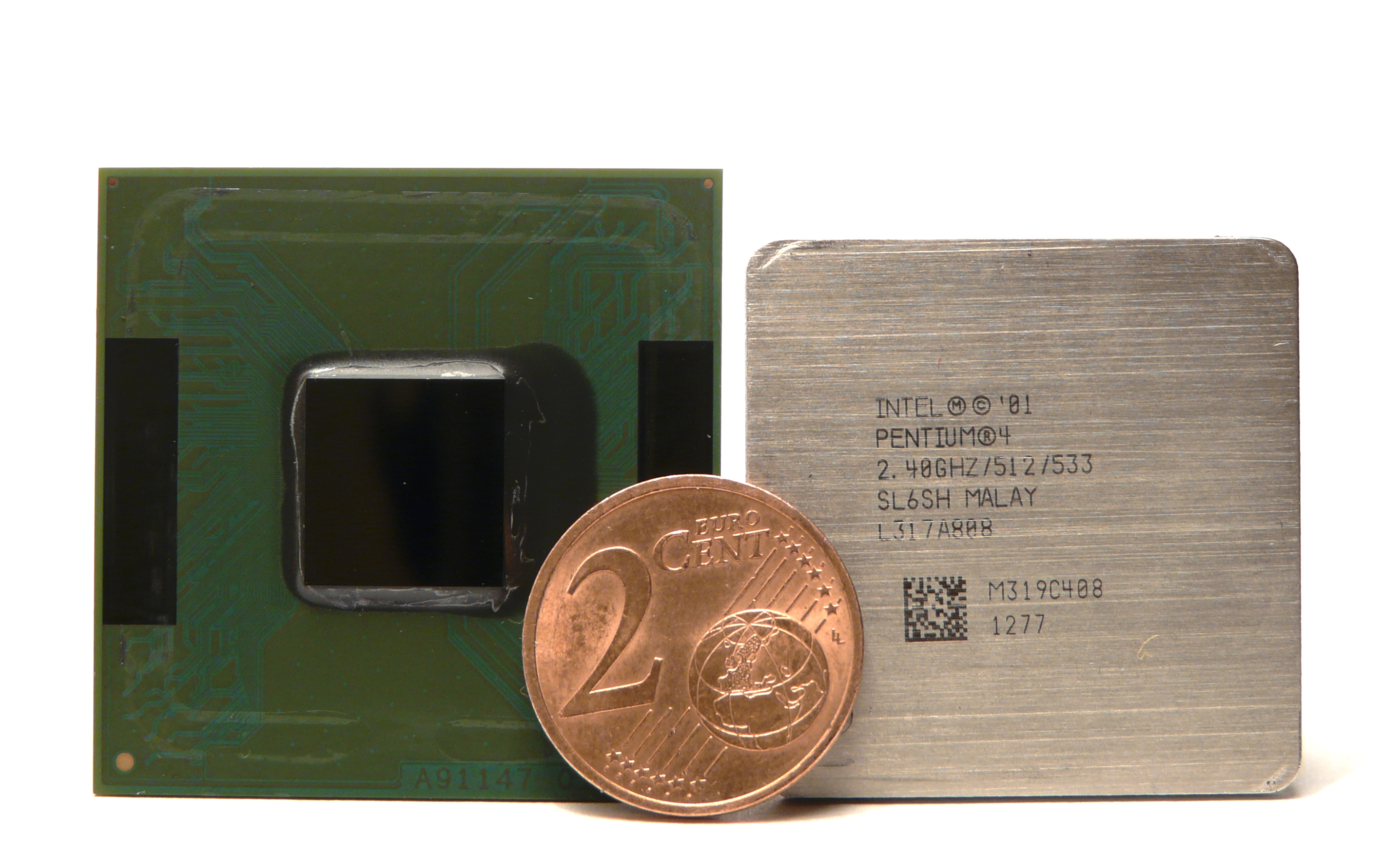 Intel Pentium 4 processor (Northwood 130nm SLASH 2.4 GHz) next to an AMD Athlon XP processor, with a €0.02 Euro Cent piece for scale.